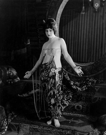 Betty Blythe in The Queen of Sheba